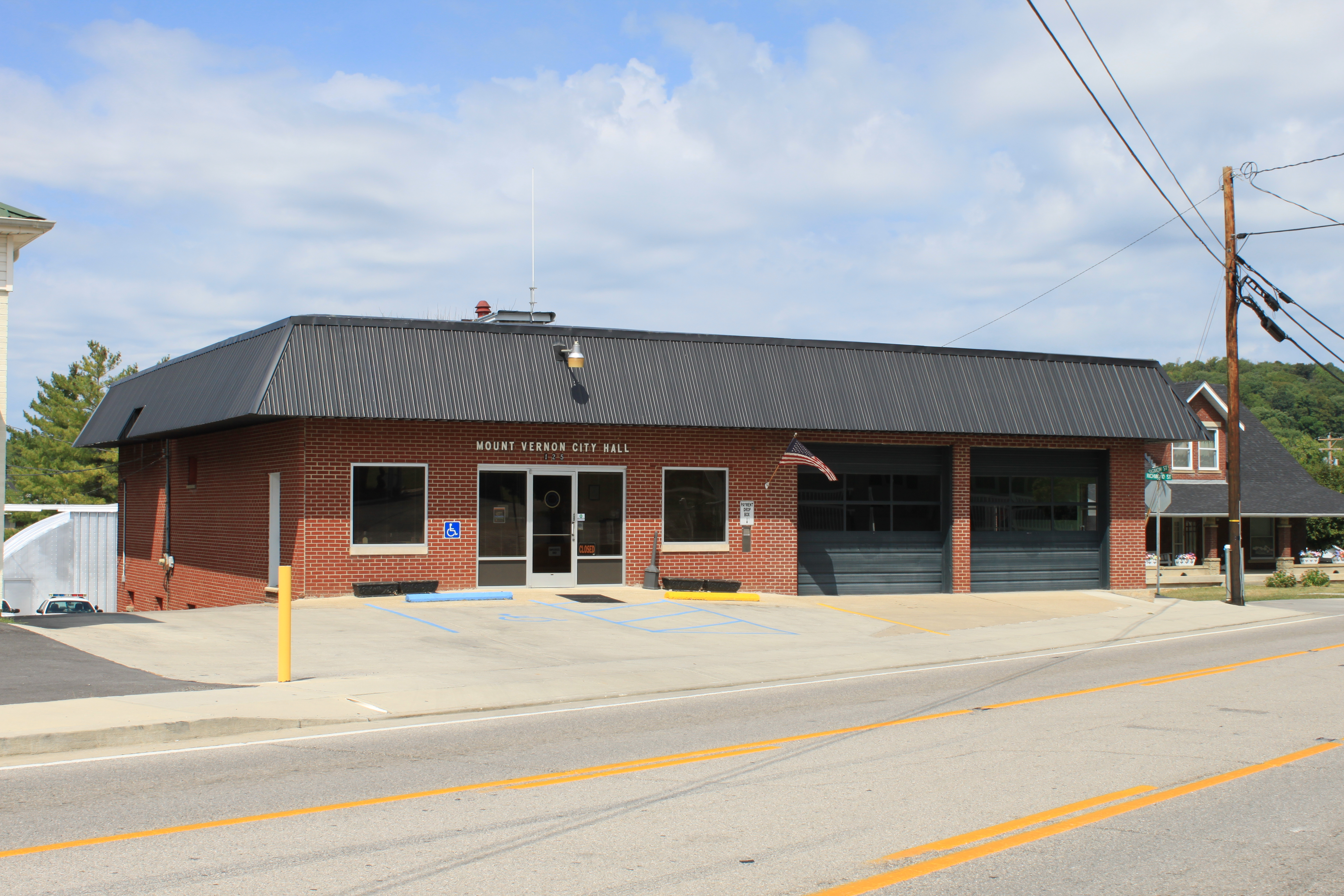 Mount Vernon Kentucky City Hall, 125 Richmond Street.